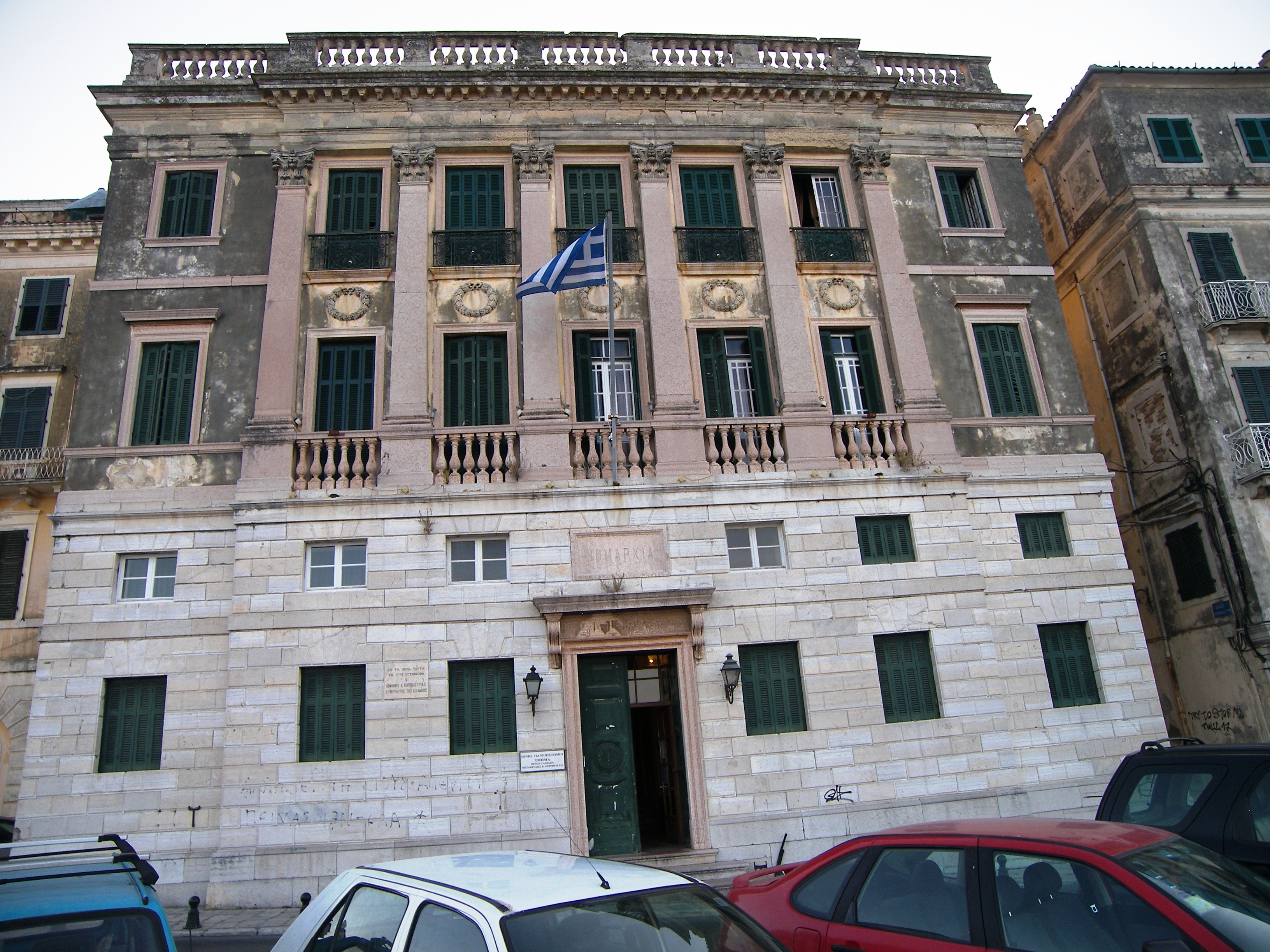 Ancient palace of Kapodistrias in Corfu. Nowadays it is the Translation Department of the Ionian University.